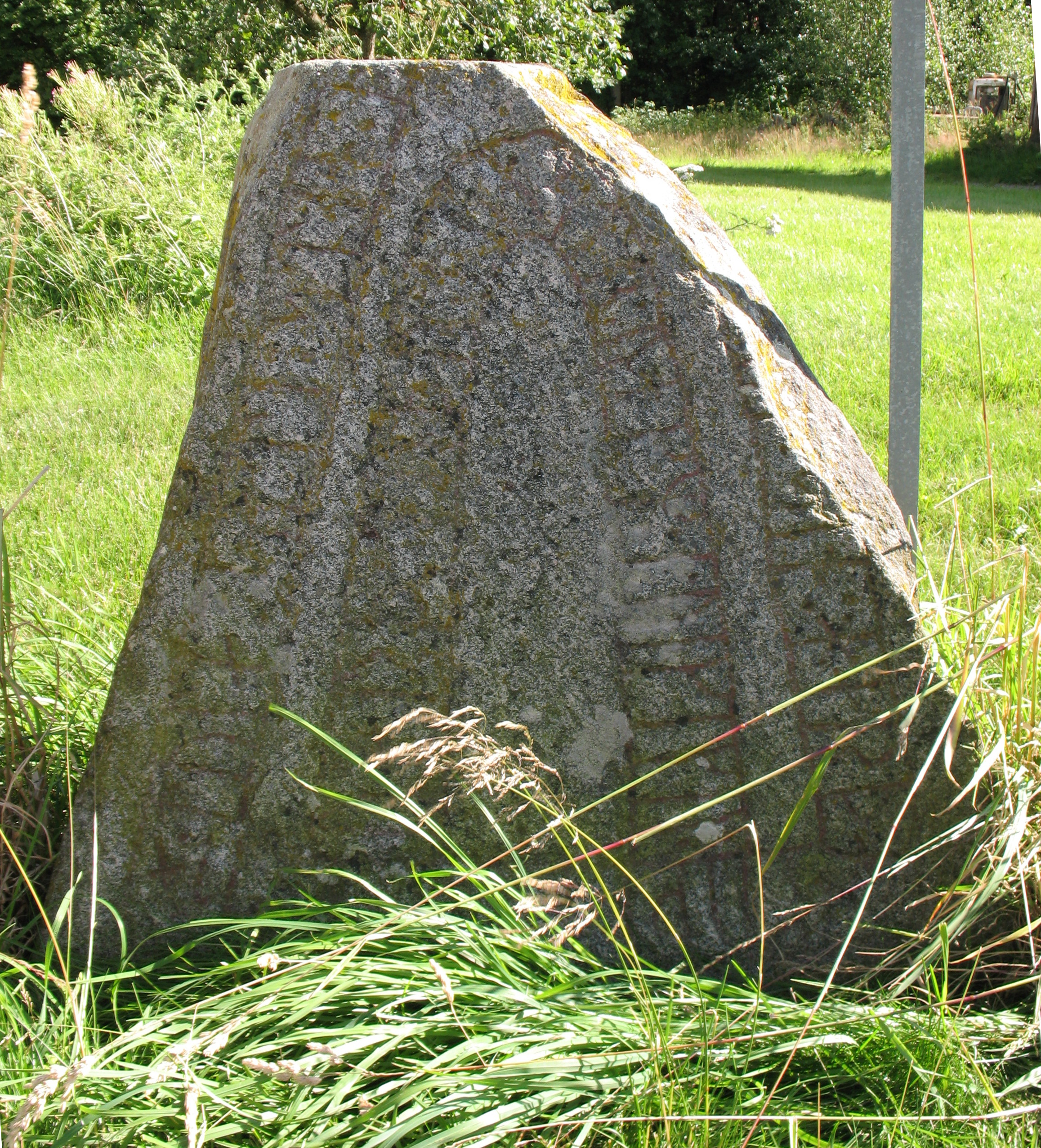 runestone Vg 61 in Härlingstorp, Vara, Sweden.